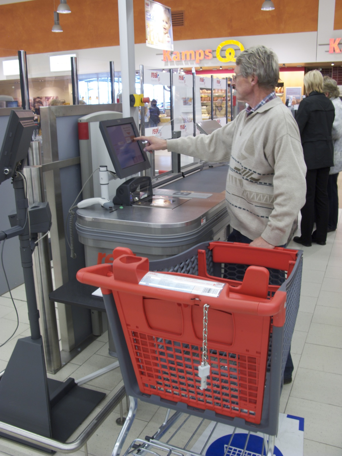 Self-service checkouts